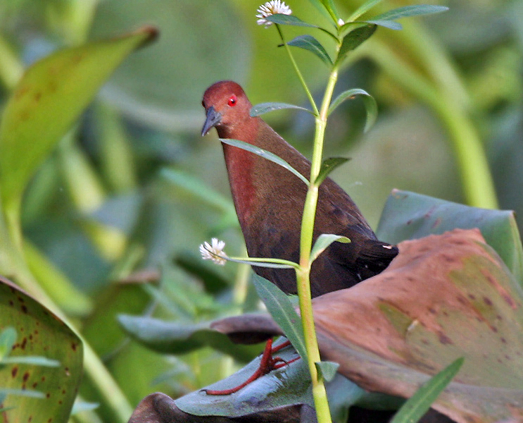 Ruddy-breasted Crake Porzana fusca in Kolkata, West Bengal, India.